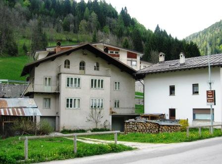 The birthplace of Luciani